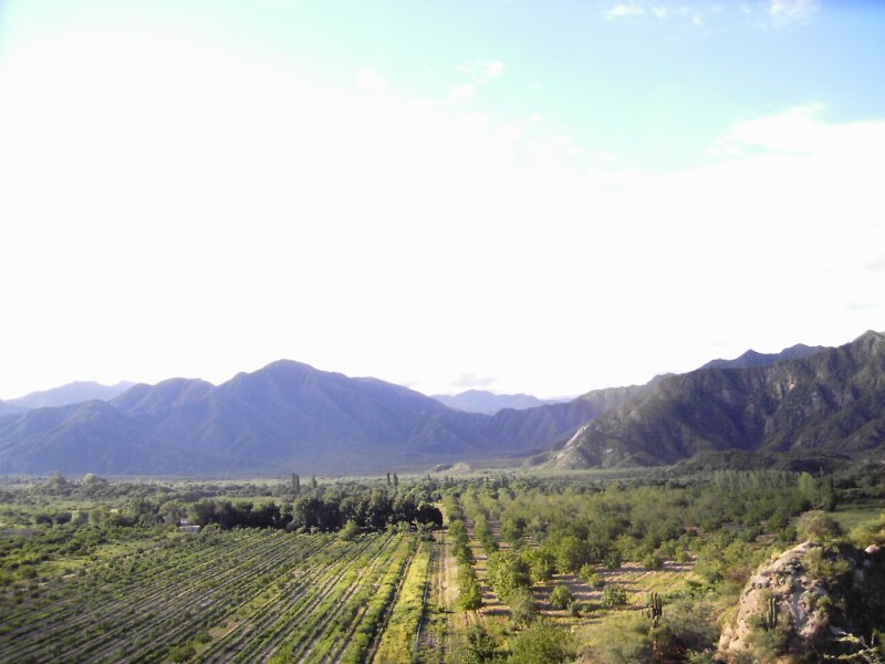 Landscape near Londres, Argentina